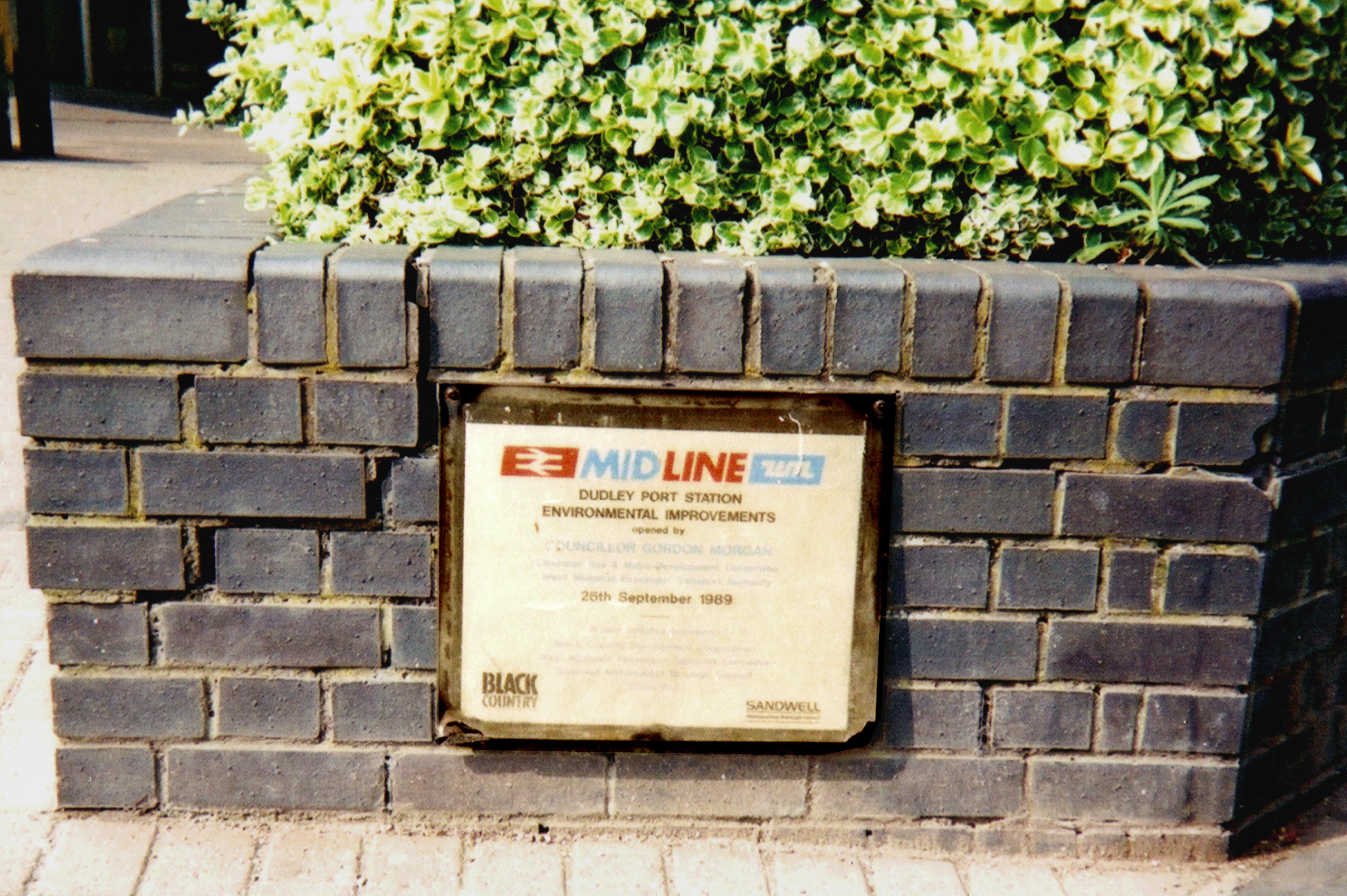 A plaque celibrateing the rebuilding of Dudley Port staion's upper level in 1989. Correct name used.Wipsenade (talk) 11:00, 8 March 2011 (UTC)